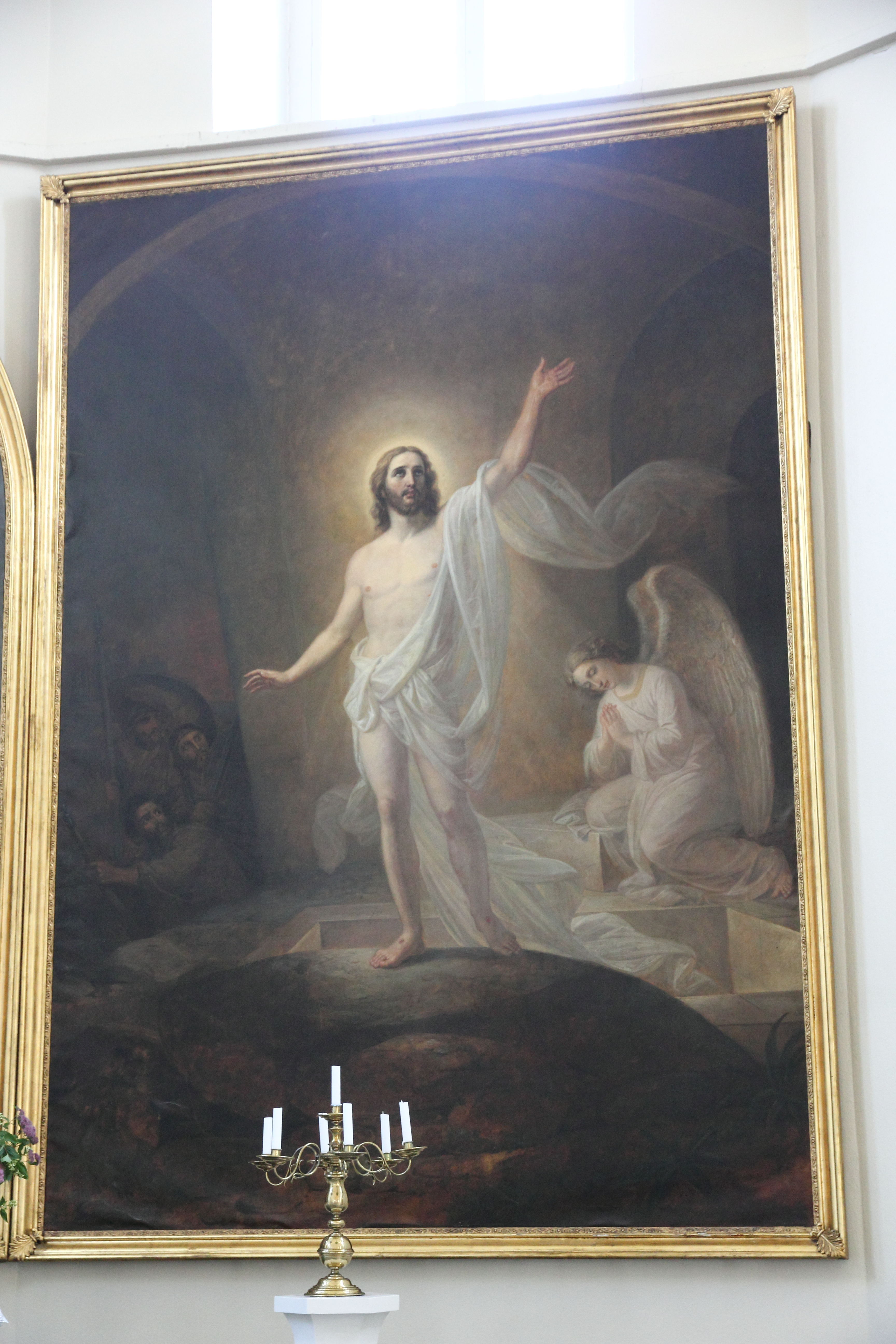 Resurrection of Christ, one of three altar paintings in Tyrvää Church.